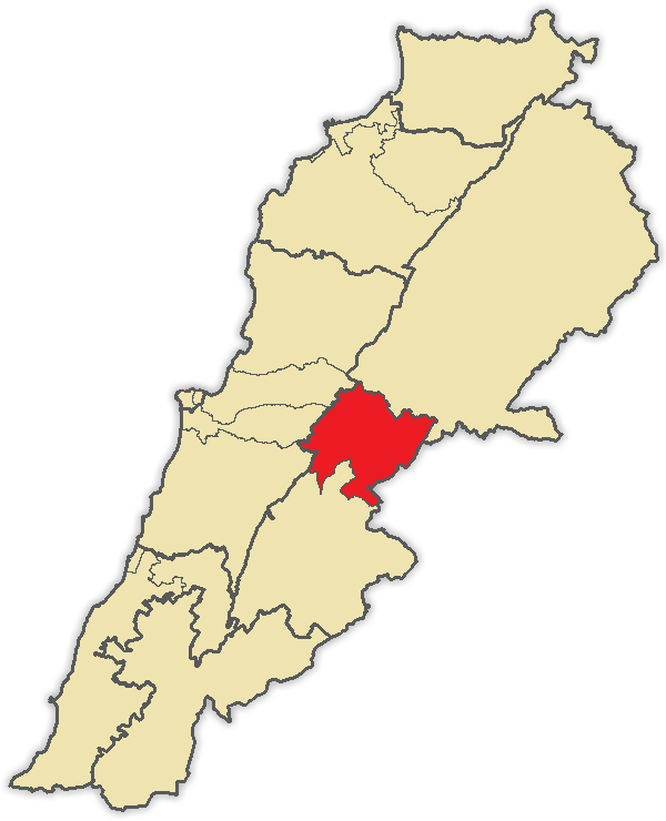 2017 vote law electoral district. Based on File:Electoral_district_of_Lebanon_(2017_Vote_Law).png